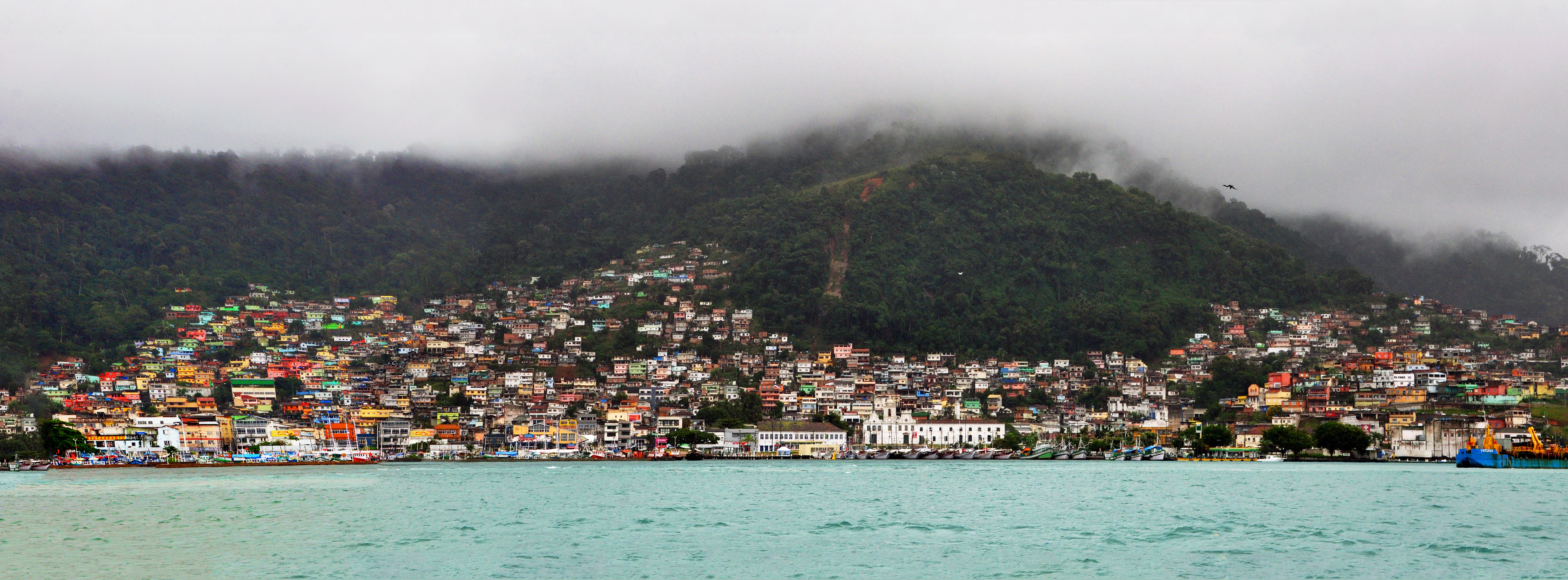 angra dos reis panorama green islands rio de janeiro brazil 2010